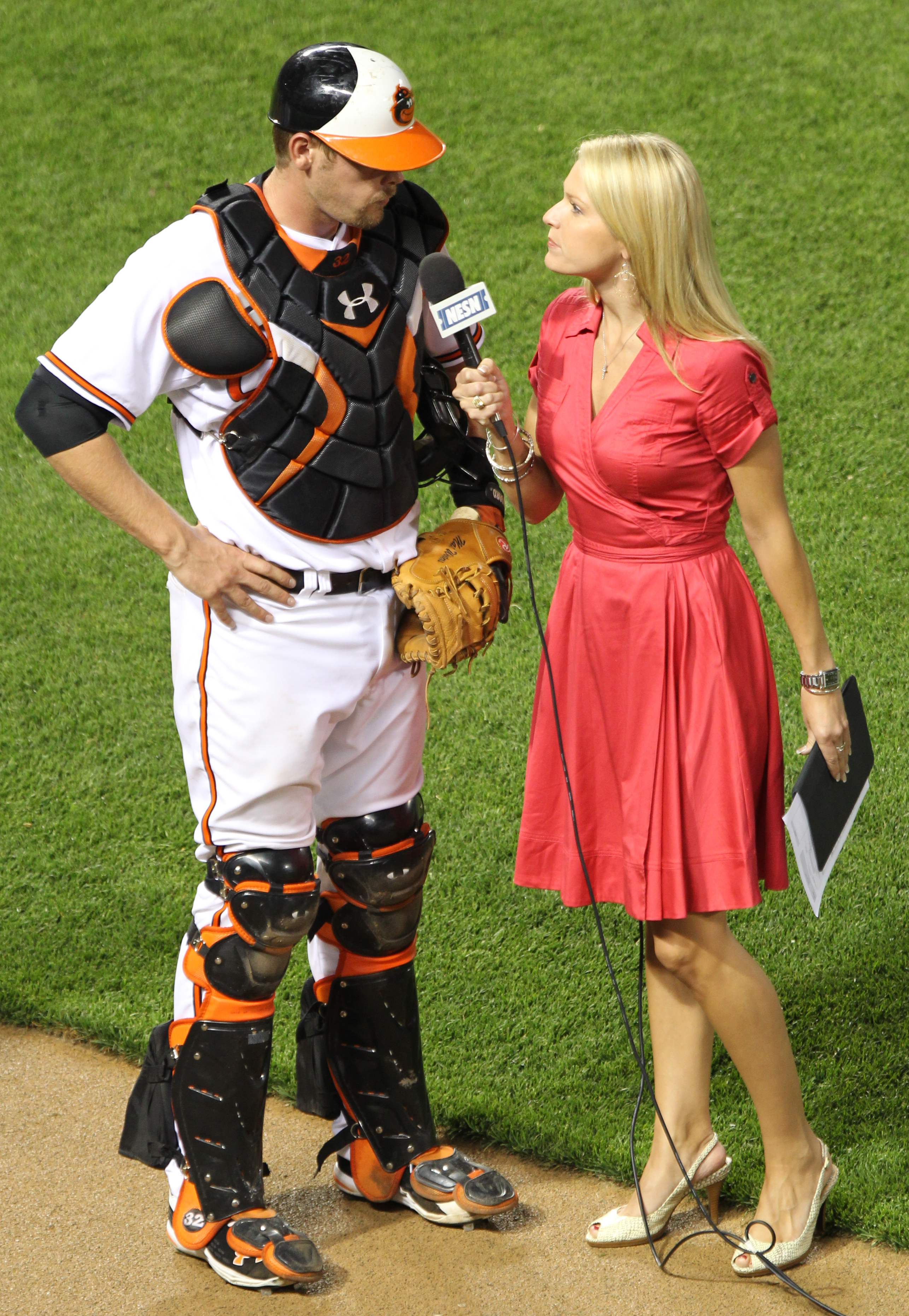 Boston Red Sox at Baltimore Orioles April 26, 2011